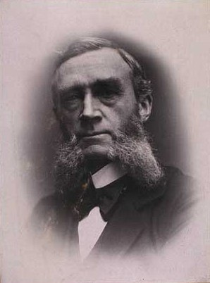 Danish estate owner, politician, Minister of Finance, MP Christian Ditlev (von) Lüttichau (1832-1915)